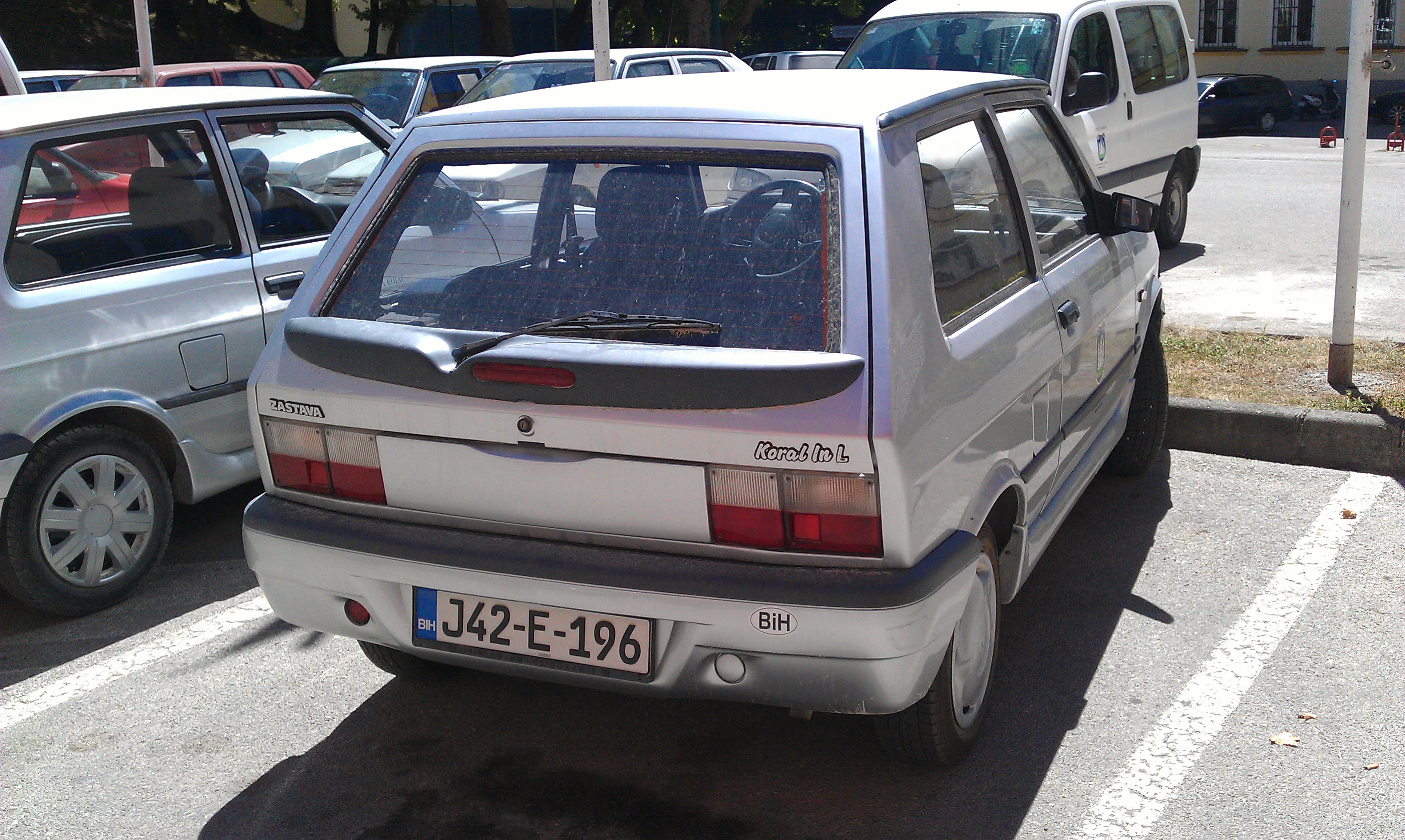 Zastava Koral In rear view as seen in Bihac (Bosnia)